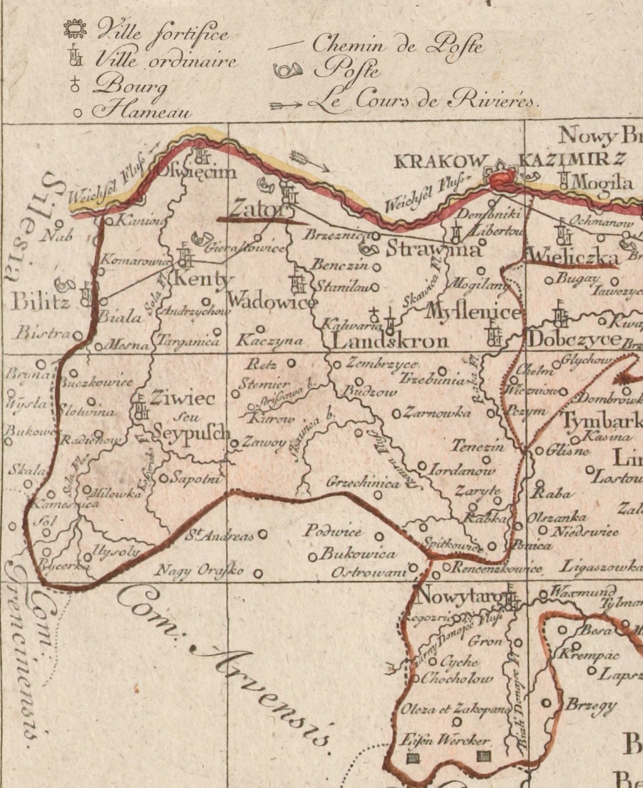 District of Zator in Habsburg Galicia around 1780